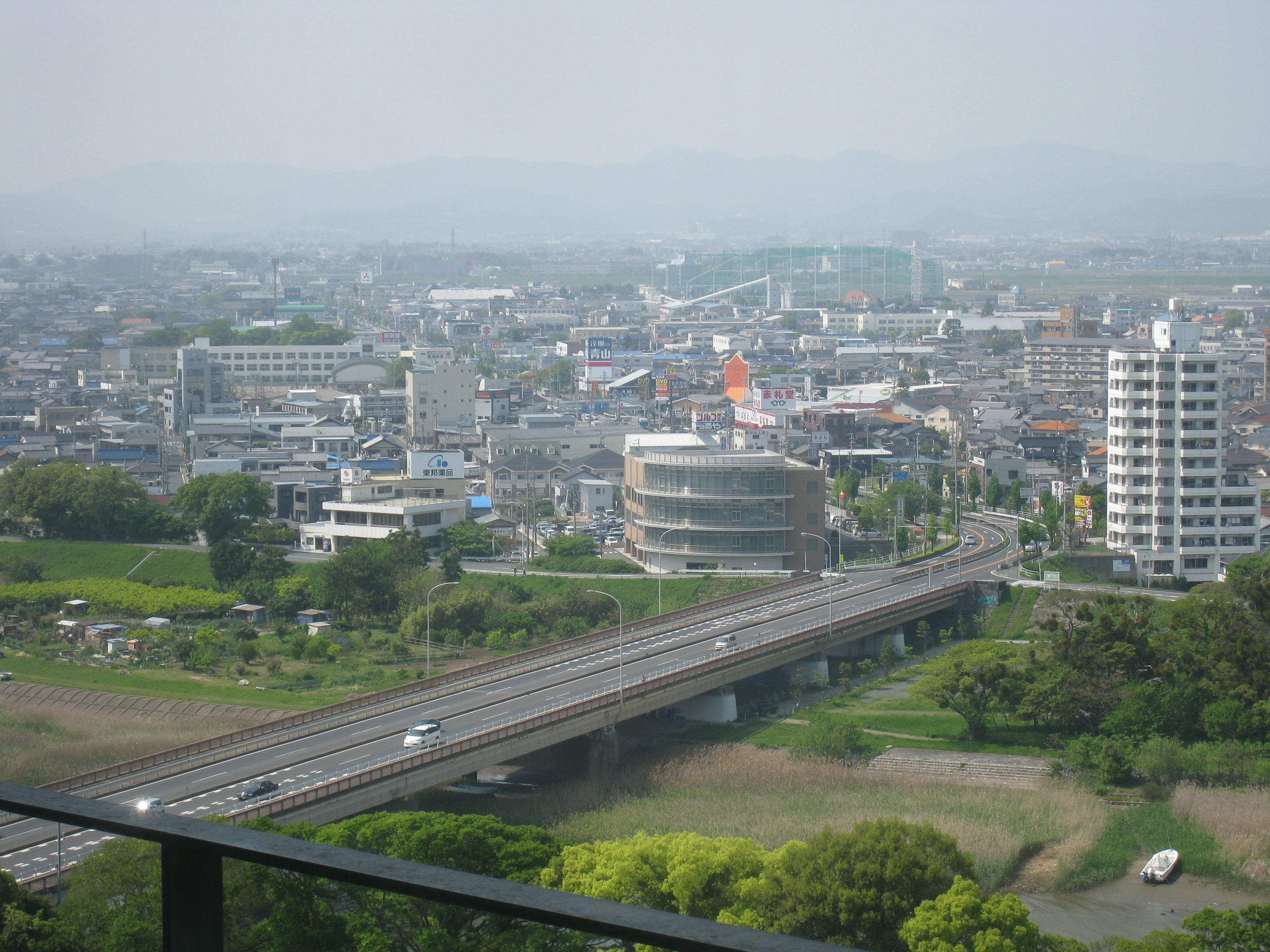 Yoshida Oohashi (吉田大橋 Yoshida Ōhashi), located in Toyohashi, Aichi, Japan